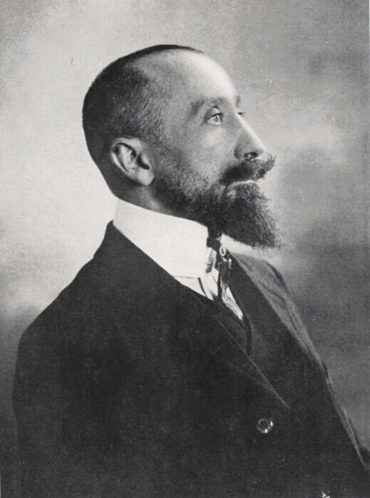 Armãneashti: Carlo Bourlet, 1908